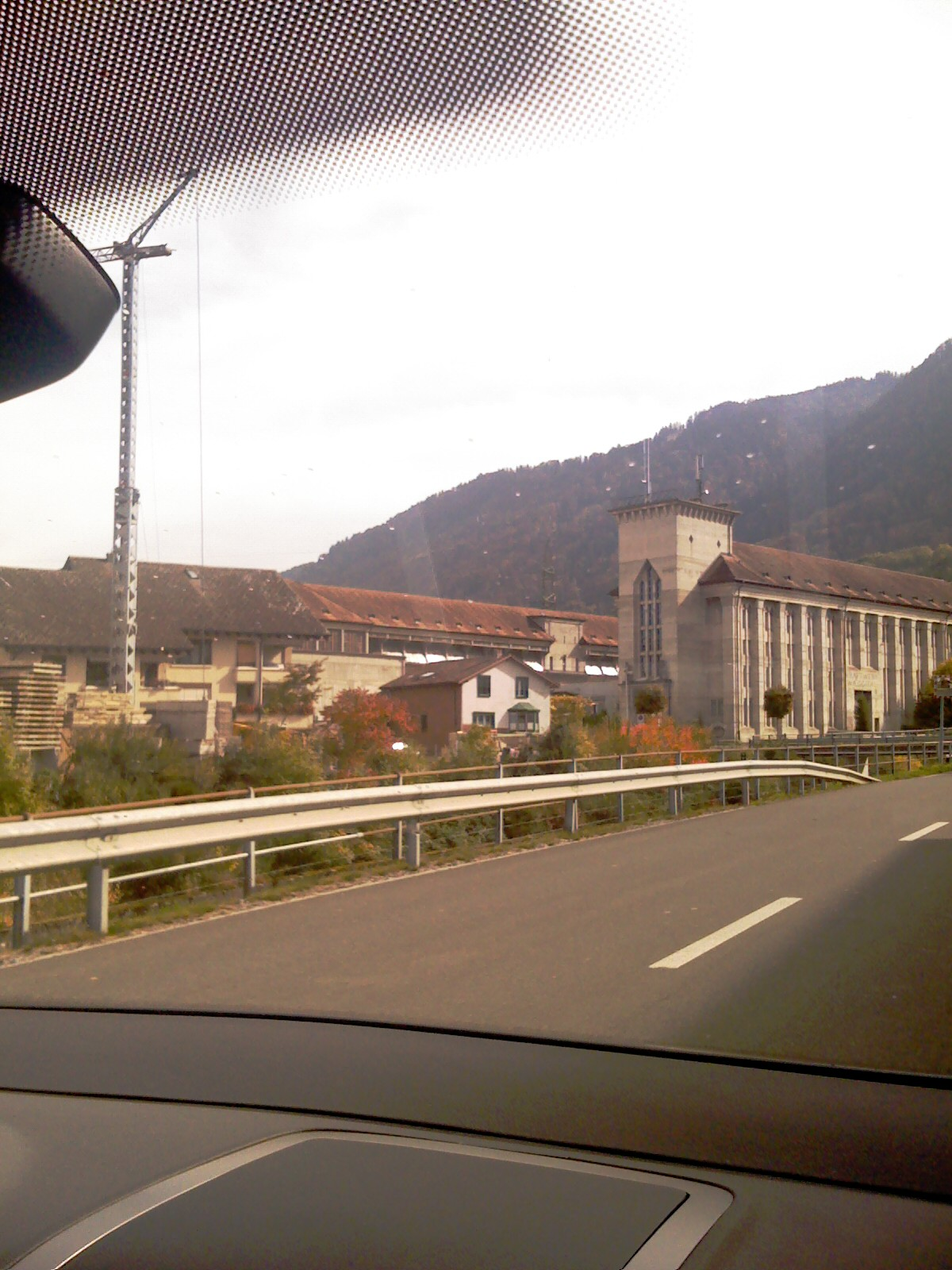 Water electric power plant at Siebnen, canton of Schwyz, SwitzerlandEsperanto: Akvoelektrejo en Siebnen, Kantono Ŝvico, Svislando